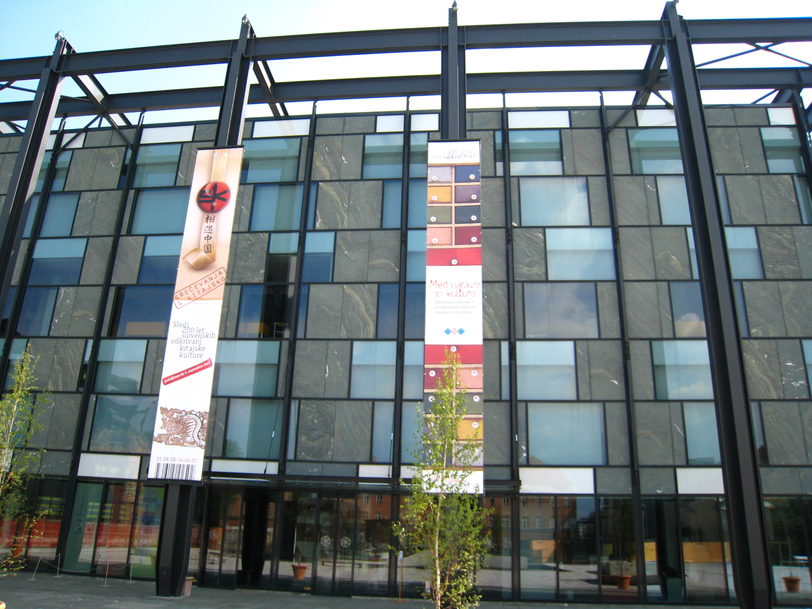 Slovenia Ethnographic Museum, Ljubljana.